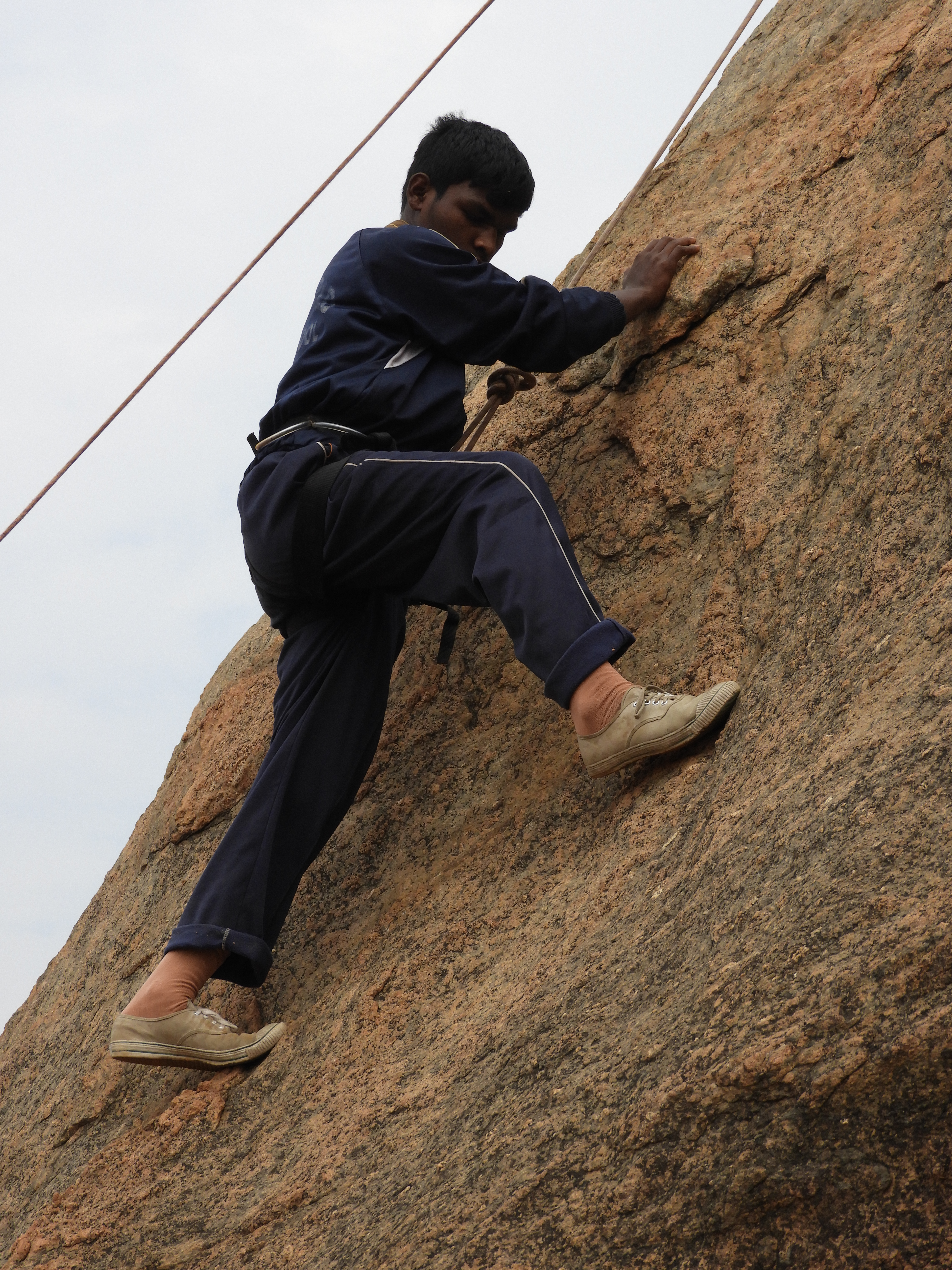 Rock climbing by Visually challenged student